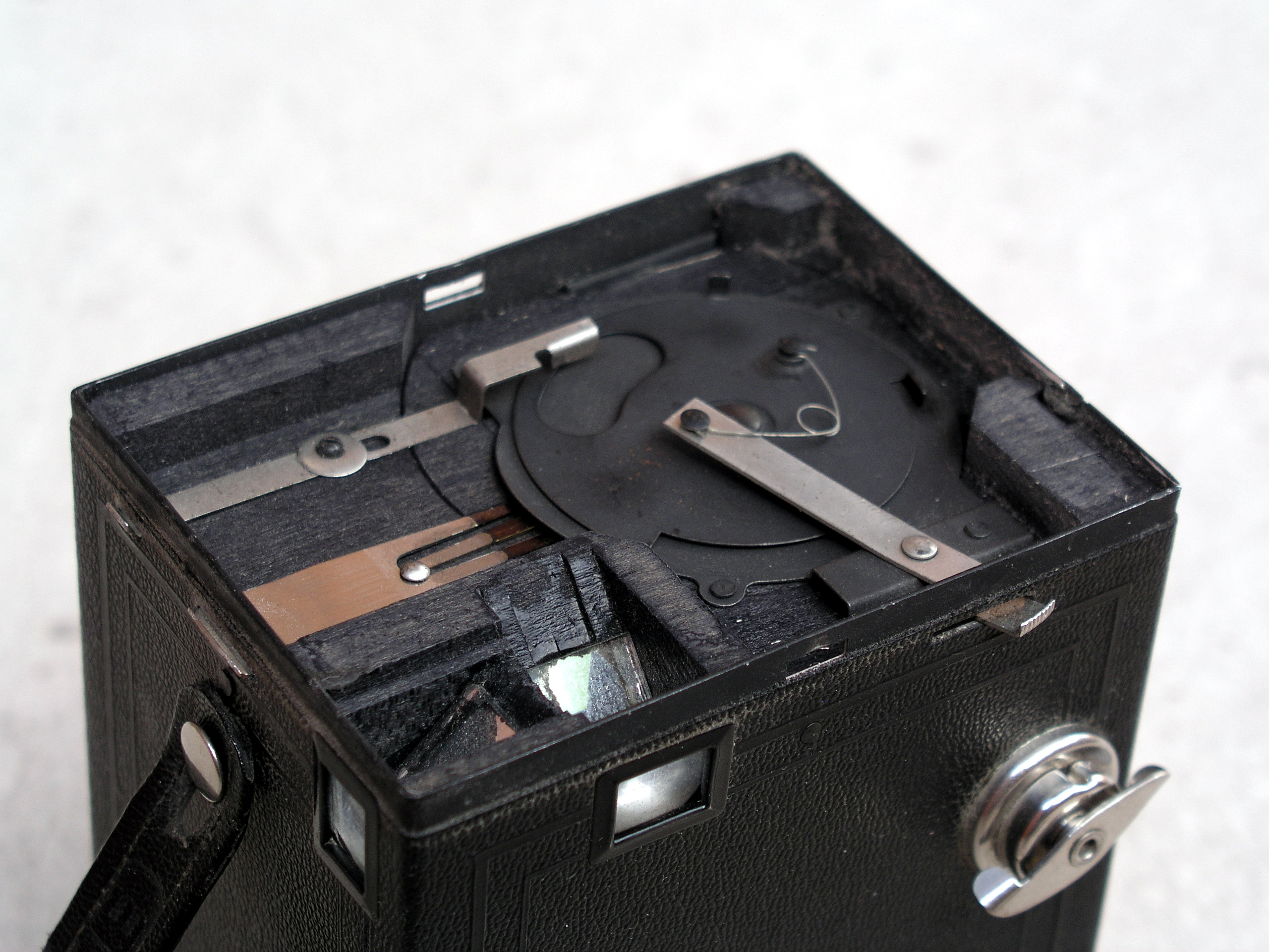 Kodak Brownie camera, shutter detail 1.